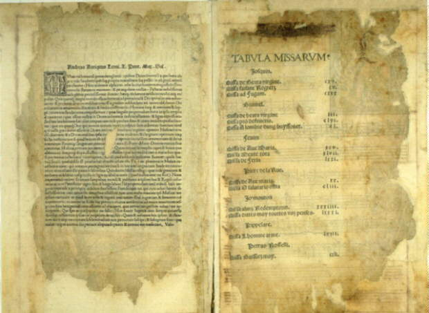 PD-art; from the Library of Congress, before that the Vatican archive; 1516 publication by Andrea Antico, TOC page. Source, Library of Congress